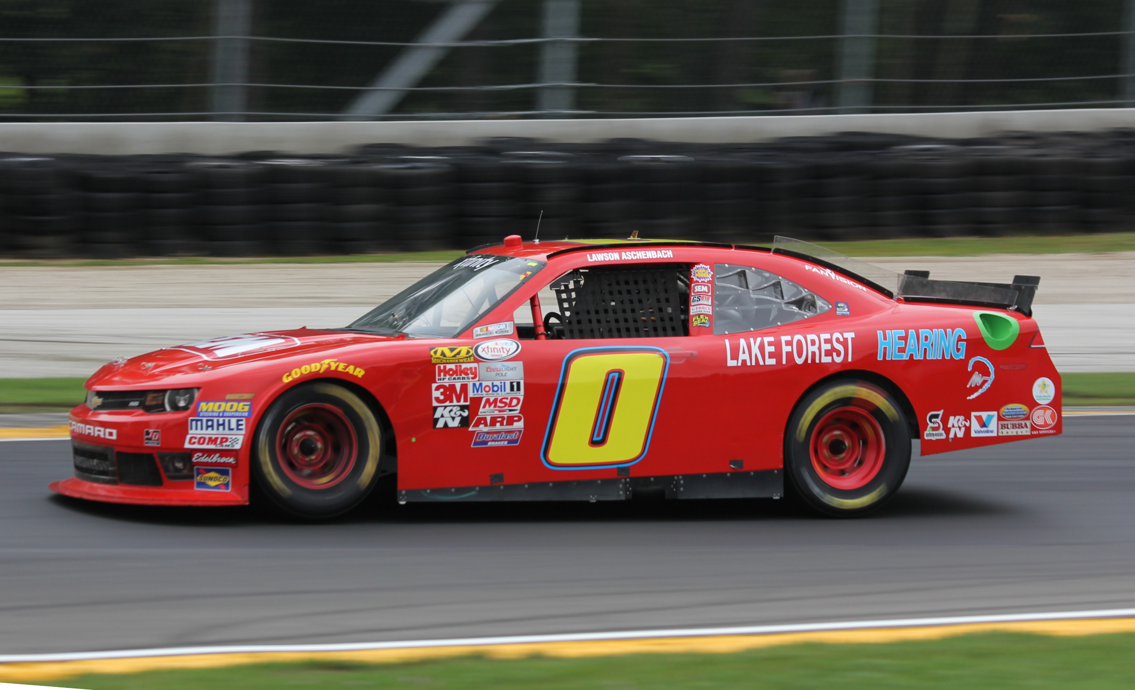 The NASCAR Xfinity Series car of Lawson Aschenbach turning left in Turn 6 at Road America.